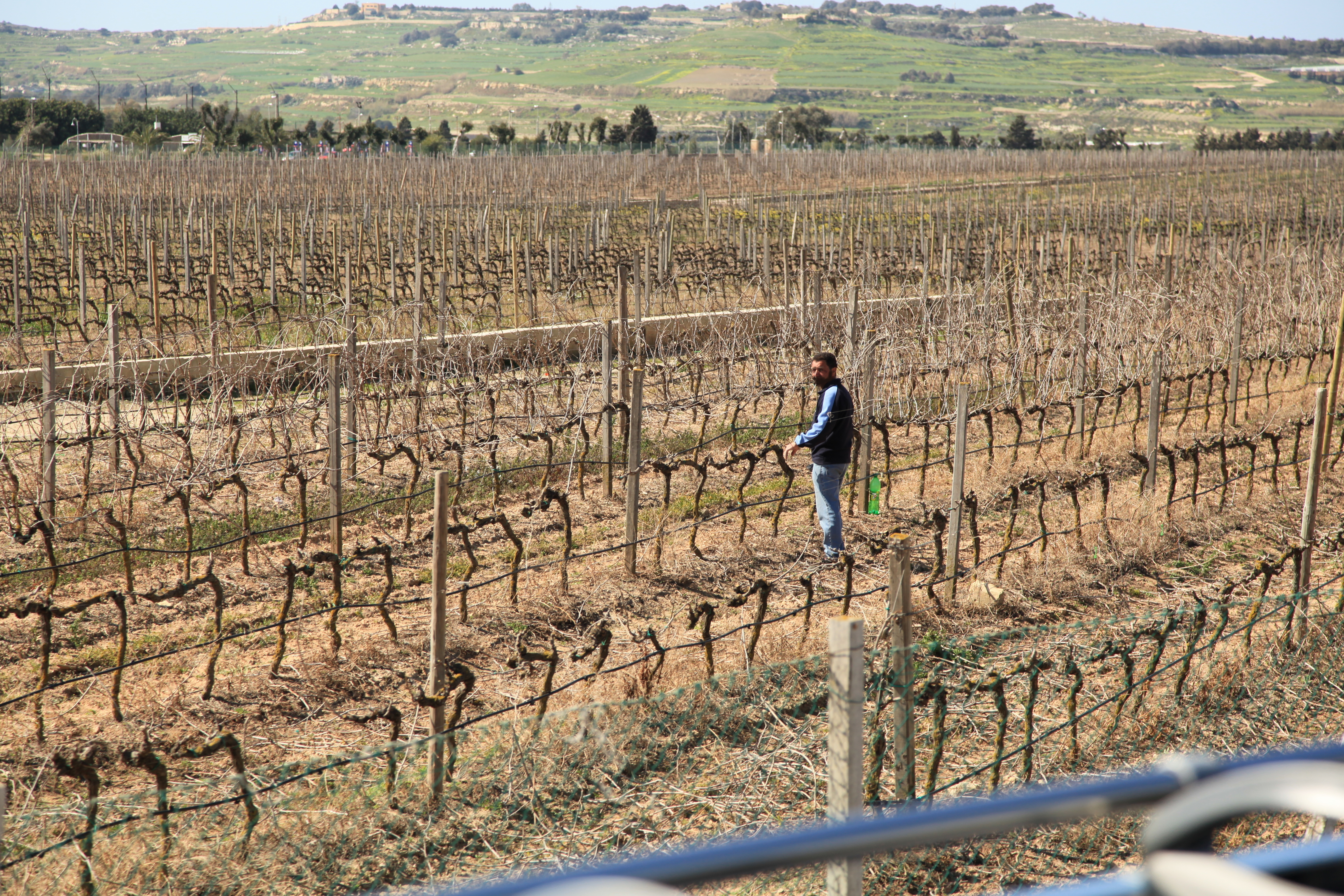 View from a Malta sightseeing north tour bus to the vineyards of the Meridiana Wine Estate at Ta' Qali in Attard, Malta